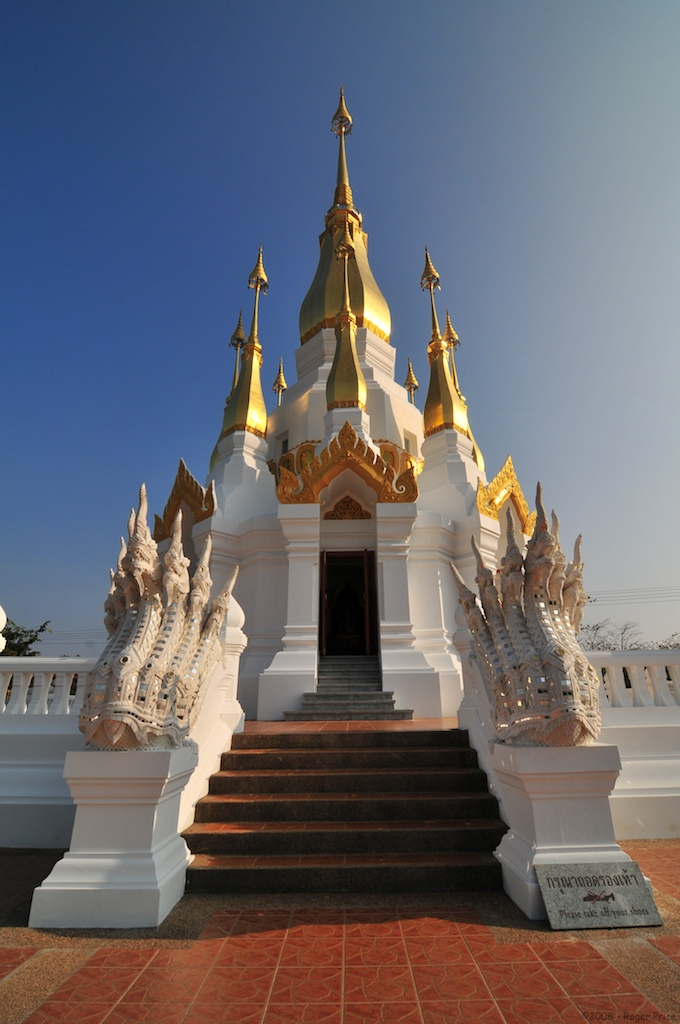 Sunny side - Khong Jiam, Isan Province - Thailand